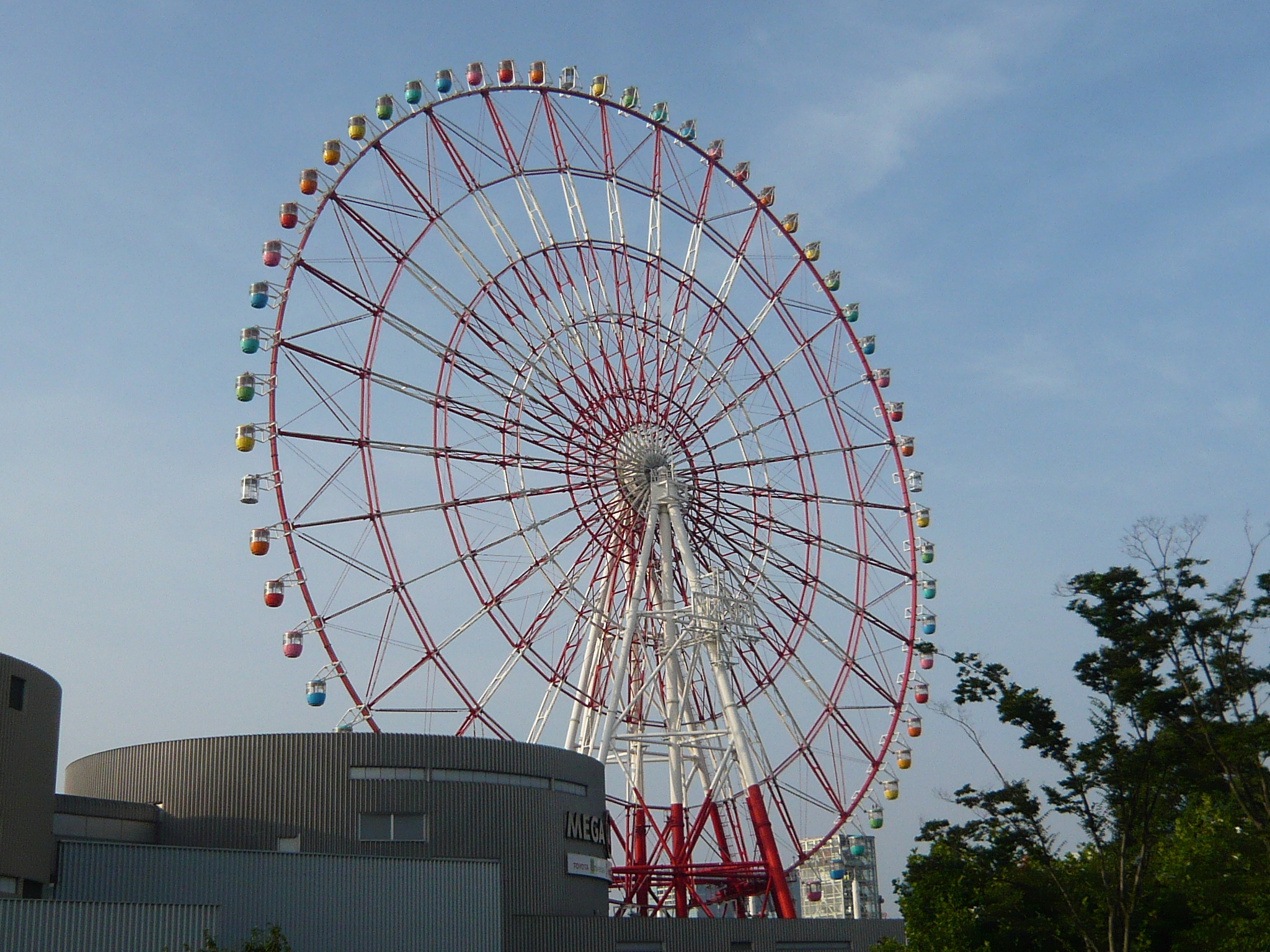 Odaiba Ferris Wheel(パレットタウン大観覧車) in Koto-ku,Tokyo,Japan.